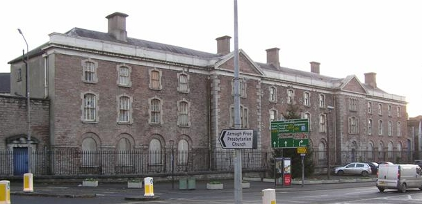 Cropped version of image to reduce foreground